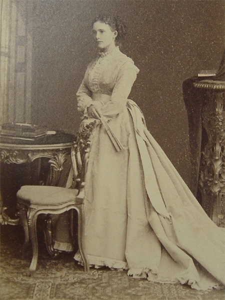 Portrait of Princess Eugenie of Leuchtenberg (1845-1925)